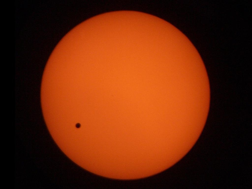 Transit of Venus 2004 A photograph taken at 07:39 UTC from Hong Kong. Telescope: Celestron NexStar 8i with Solar Filter NexStar 8, 40mm 1 1/4 in. Plossl eyepiece; camara: Casio Exilim EX-Z4 Digital Camera. Bilde:Venus Transit 2004.JPG